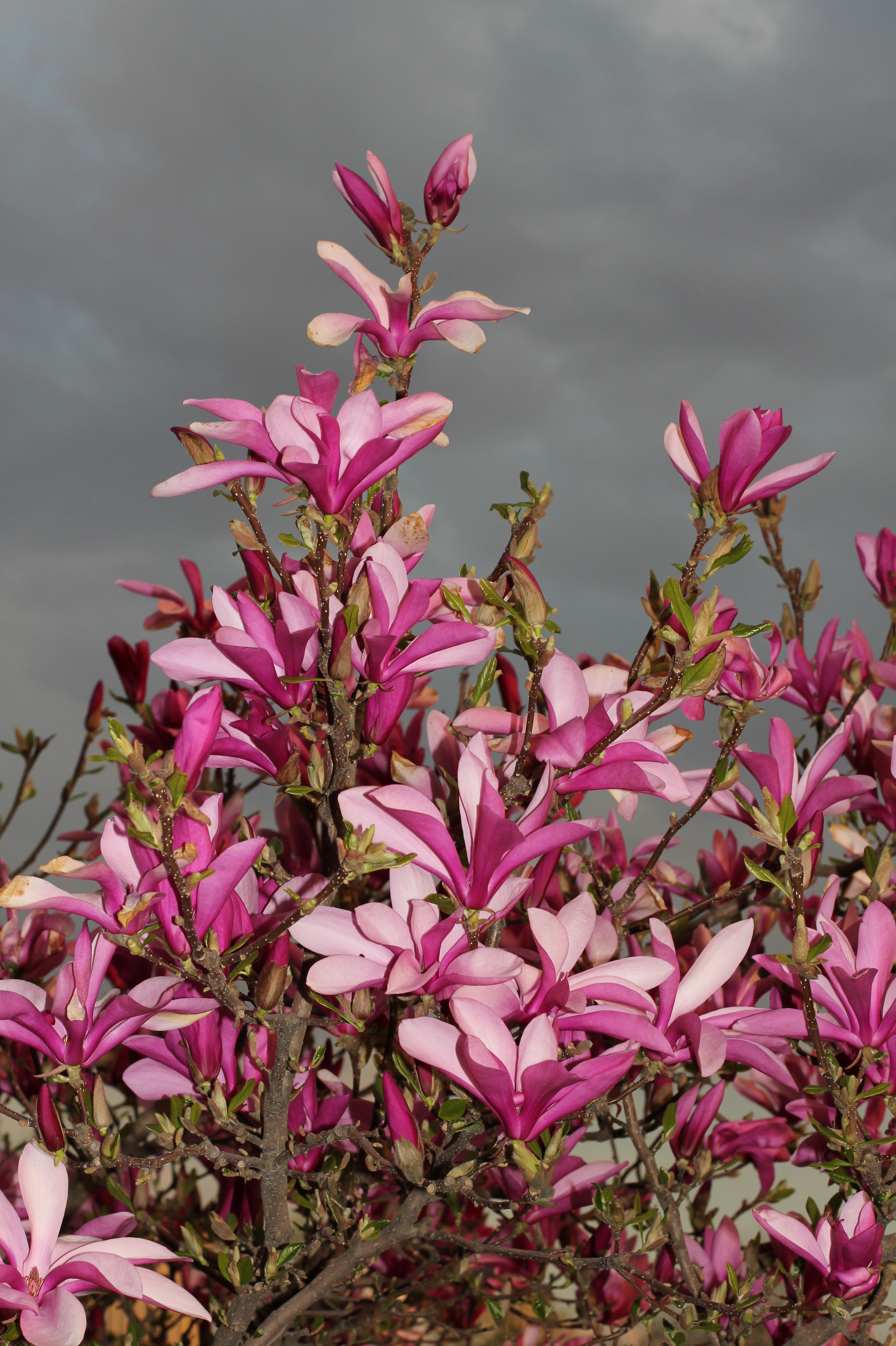 Lily magnolia, also known as Mulan magnolia, Tulip magnolia, Jane magnolia and Woody-orchid. Ukraine, Vinnytsia